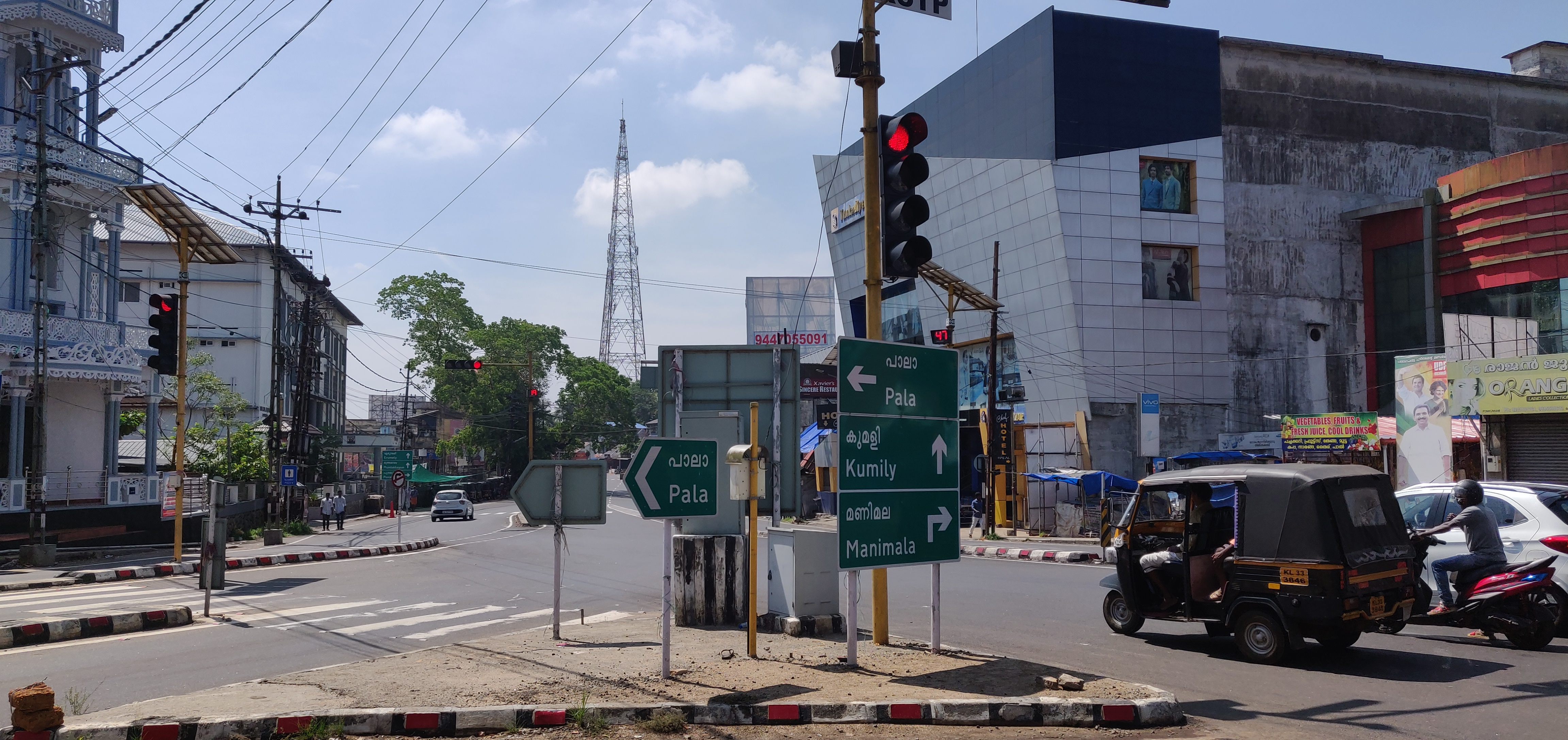 A traffic signal in Ponkunnam Town, Kerala, India